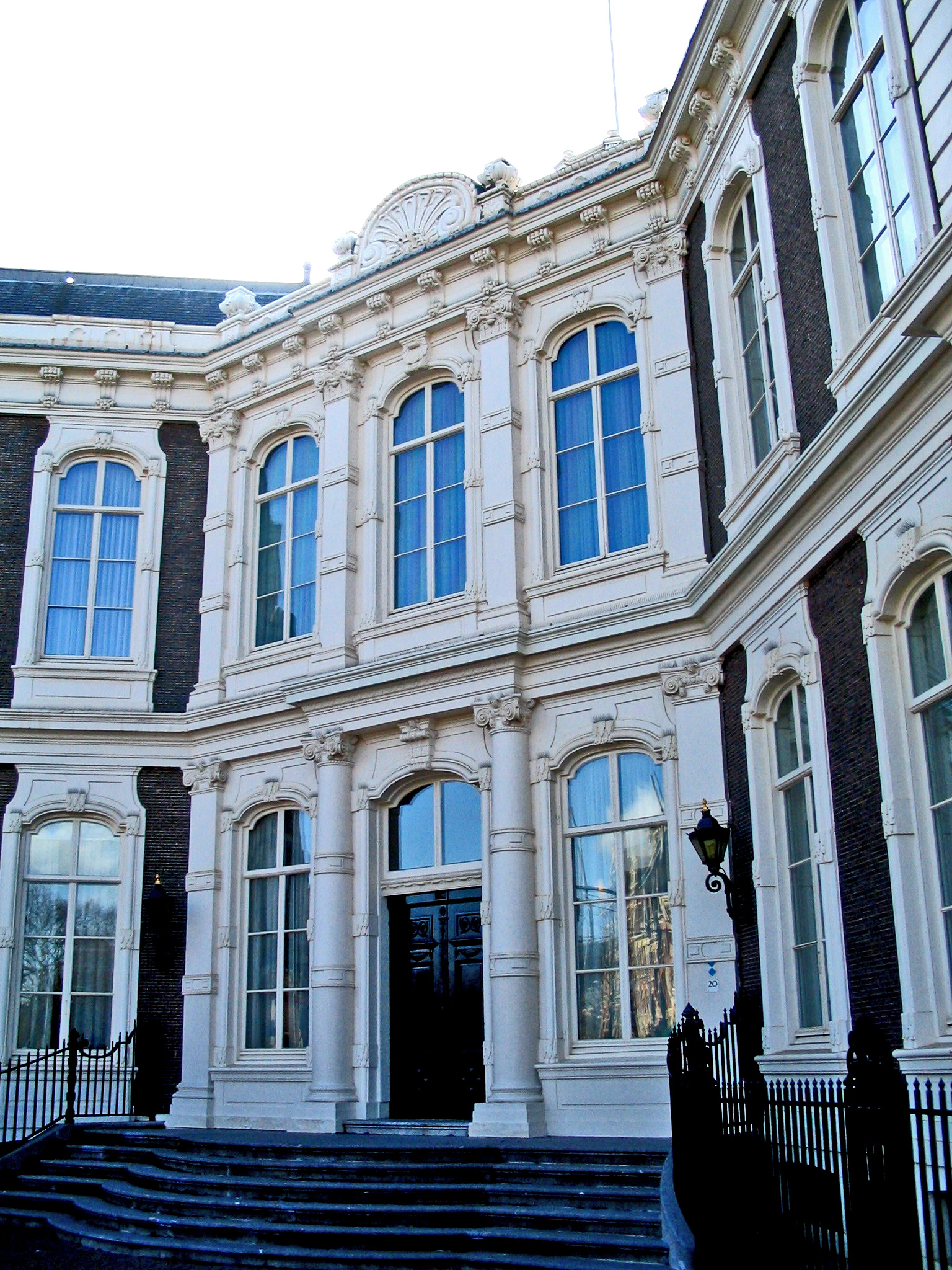 Build in 1739 (architect was Daniël Marot). Sold in 1816 to King Willem I. He gave it to his son, King Willem II.